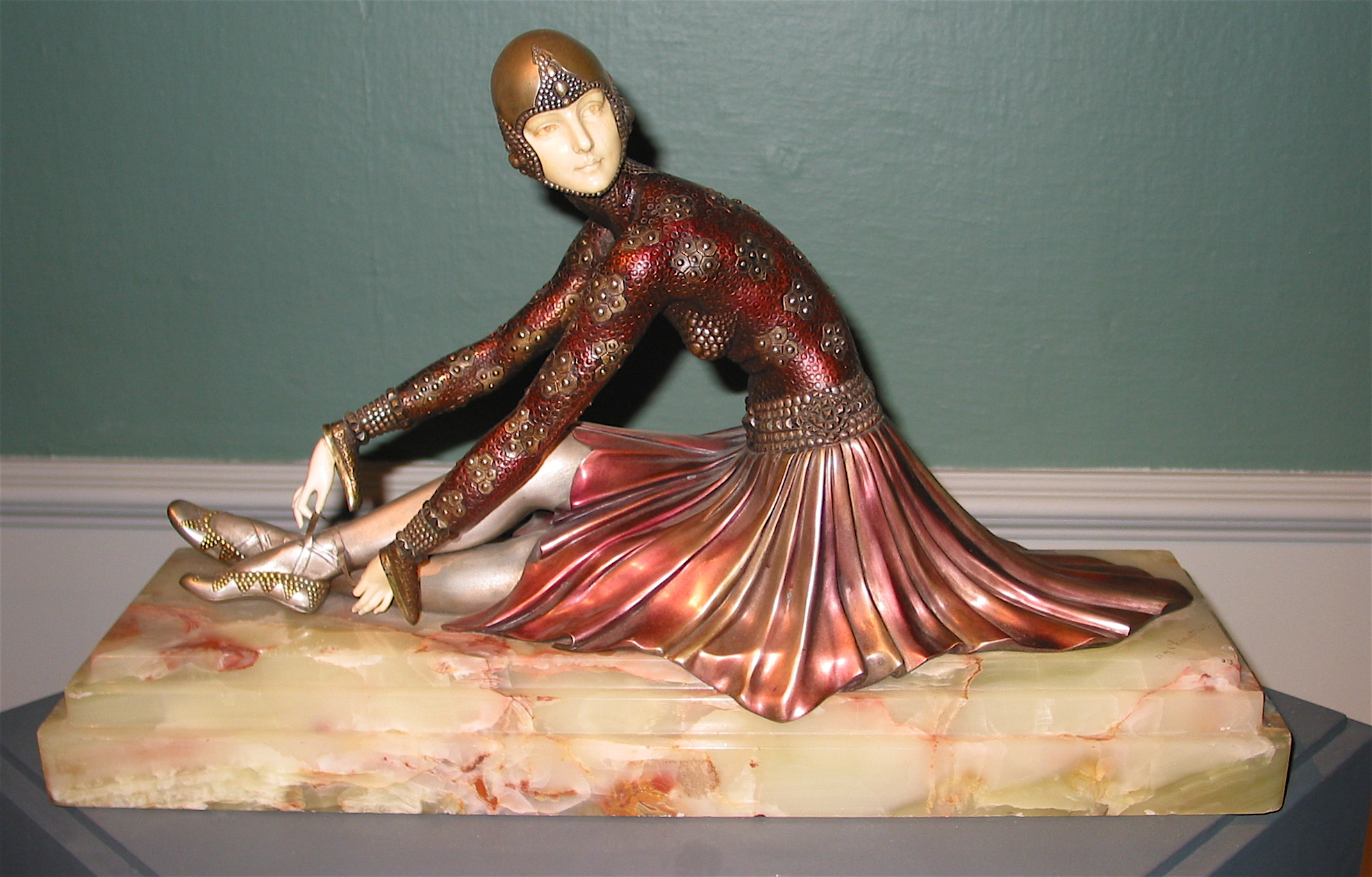 Exhibit of Art Deco Sculpture at the 8th World Congress of Art Deco in Cape Town. Sculpture made by Demétre Chiparus.